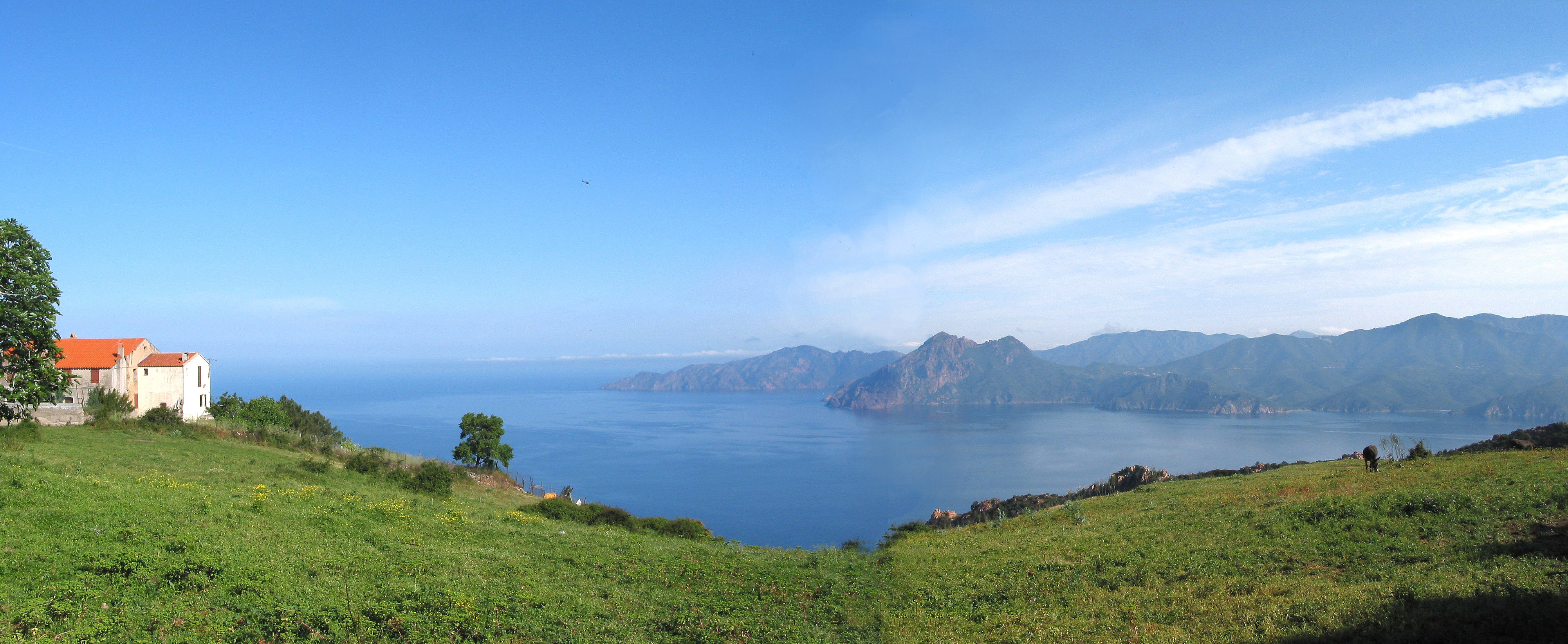 Piana ( Corse du Sud) - France, the Gulf of Porto. Walon: Piana (Corse do Sud) - France, li Golfe di Porto.